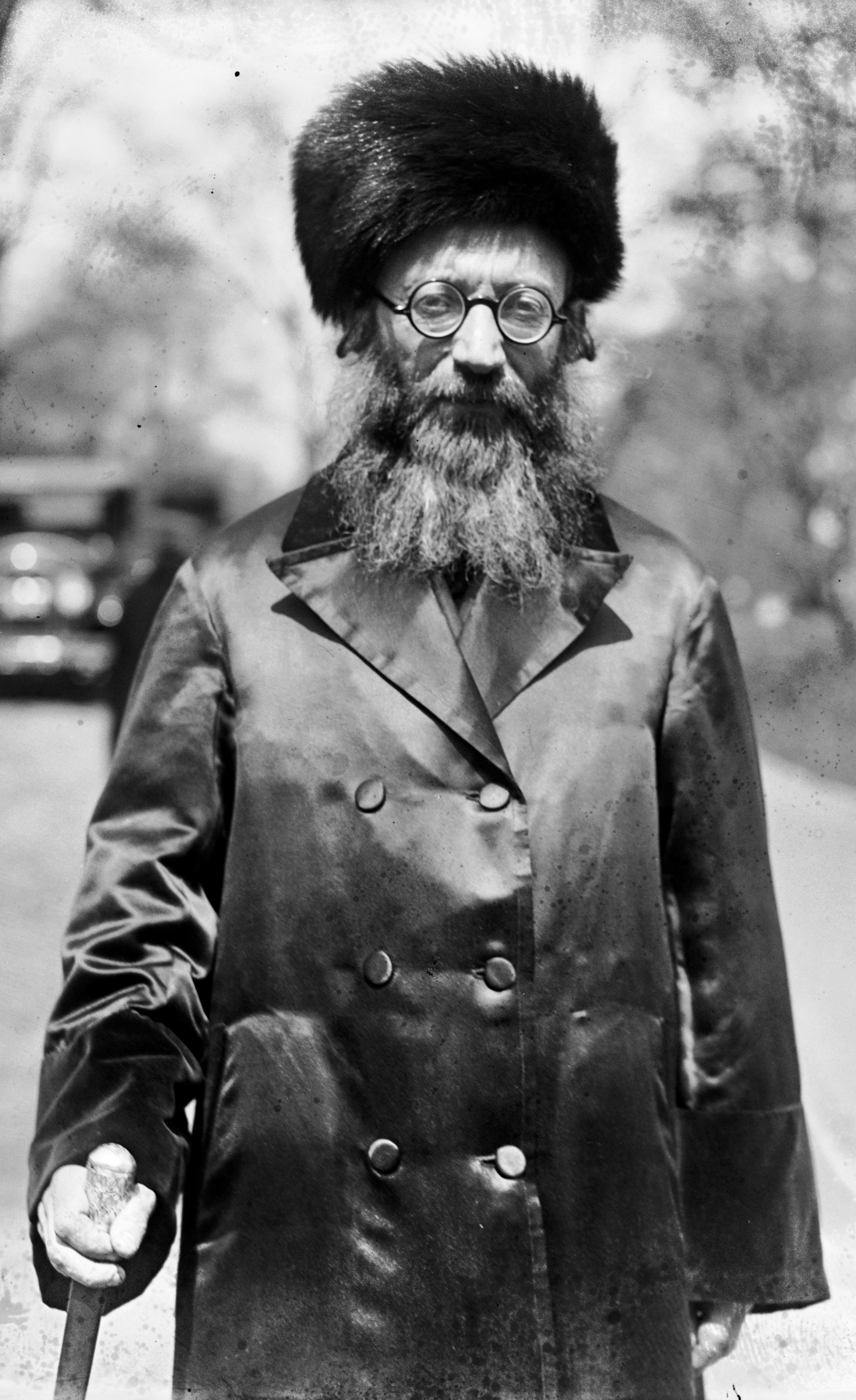 Rabbi Dr. Abraham I. Kook, 4/15/24